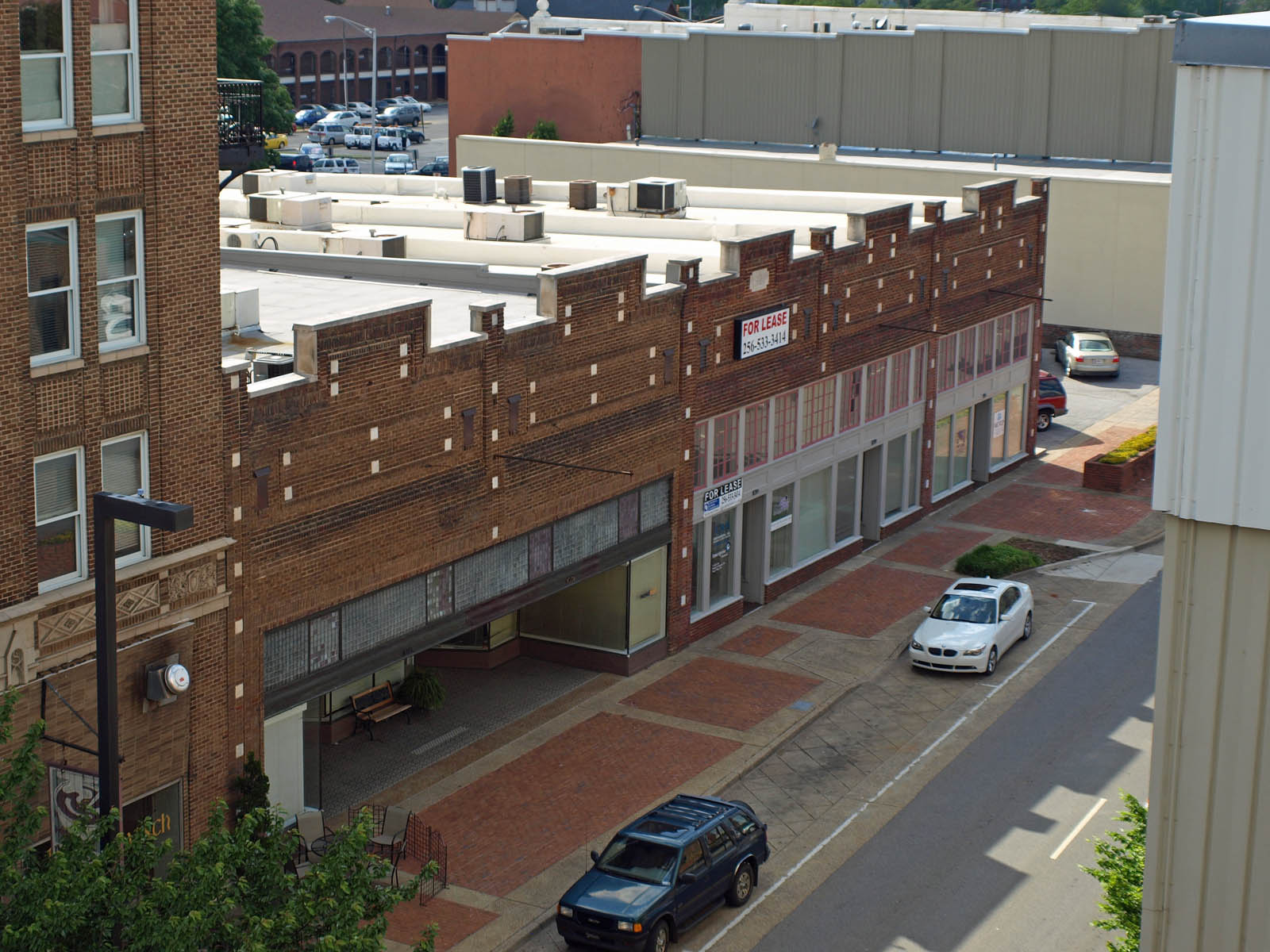 Becker's Block on N. Jefferson Street in Huntsville, Alabama, listed on the National Register of Historic Places.